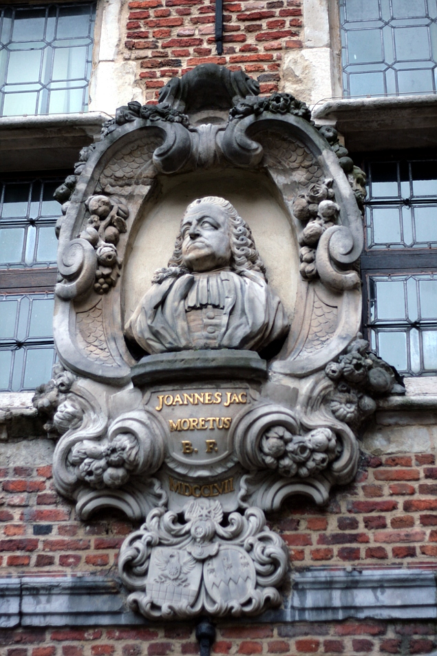 A 17th or 18th century bust of Joannes Moretus in Antwerp, printer continuing the business started by Christopher Plantin in the 1570s.